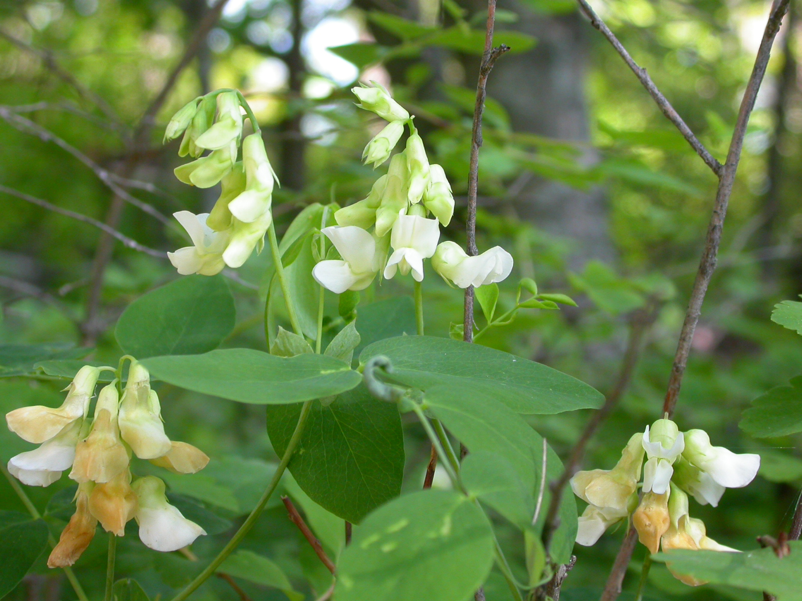 An understory species found in roadside habitat.